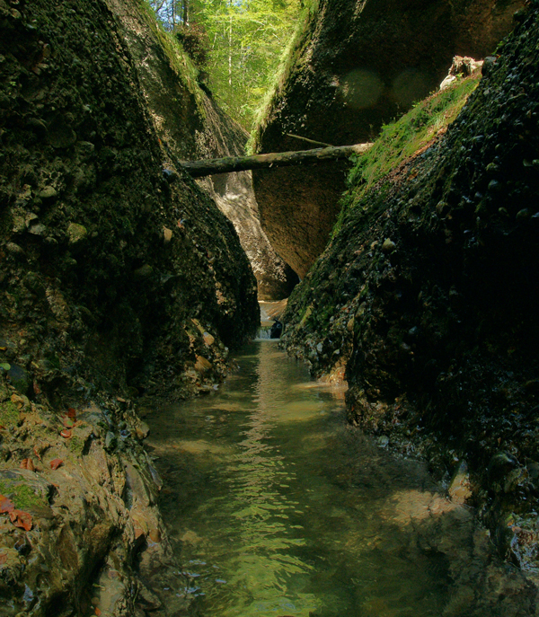 River Seeblibach